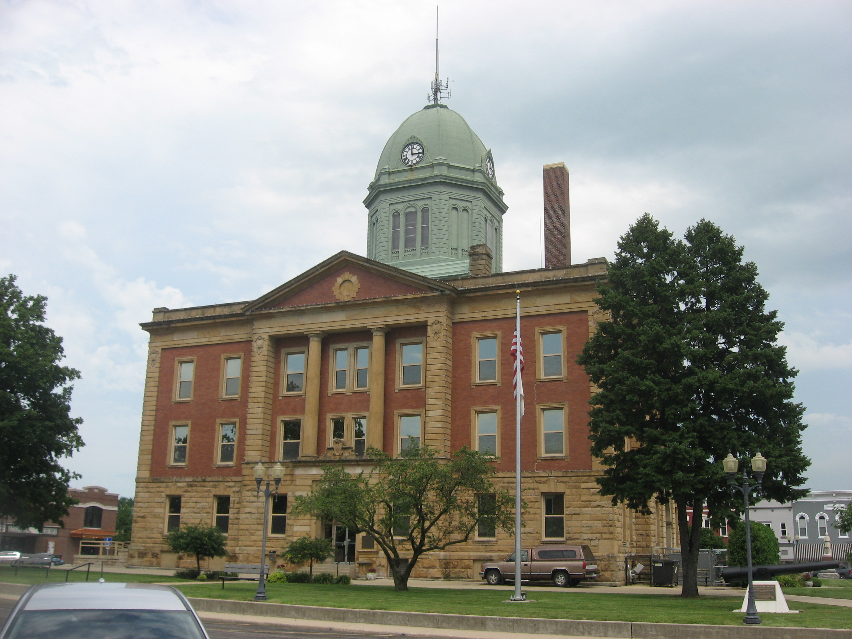 Western side of the Moultrie County Courthouse, located on Courthouse Square in Sullivan, Illinois, United States. Built in 1906, it is listed on the National Register of Historic Places.